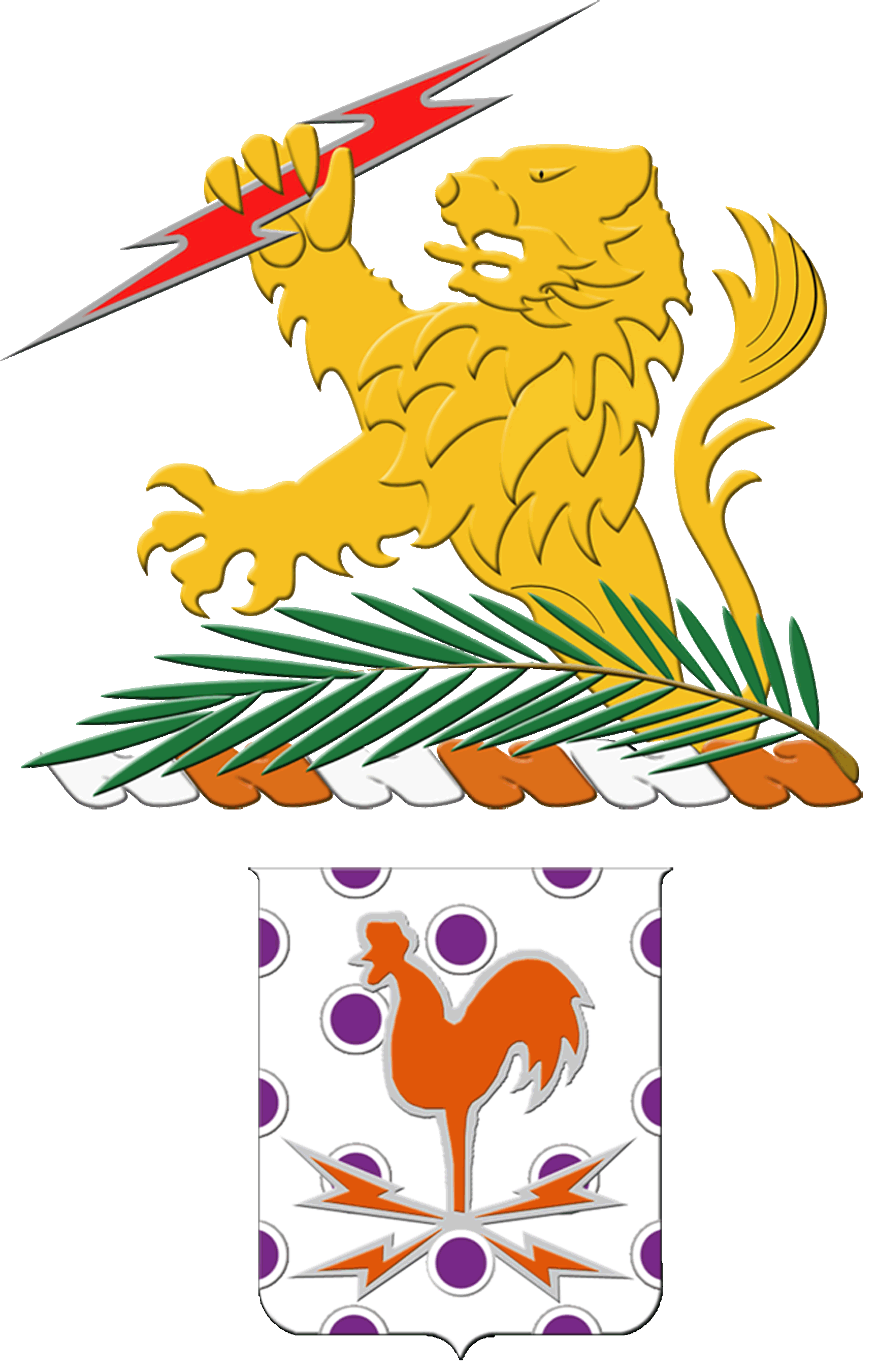 25th Signal Battalion Coat of Arms Blazon: Shield: Argent, semé of golpes a weathercock standing on four flashes saltirewise Tenné. Crest: From a wreath Argent and Tenné issuing from a palm frond fesswise Proper, a demi-lion rampant Or holding in dexter paw a lightning flash for Finest of the First. Motto: NEVER UNPREPARED. Symbolism: Shield: Orange and white are Signal Corps colors. The purple roundels are symbolic of the grapes typical of the Rhineland and Central Europe, where the battalion was awarded battle honors in World War II. The weathercock, signal of the wind’s direction, is used with four lightning flashes to symbolize communications in any quarter of the world. Crest: The lion, embodiment of strength and courage, commemorates the unit's war service awards in World War II and Southwest Asia. The red lightning flash reflects the color of the Meritorious Unit Commendation awarded to the organization in Southwest Asia. The palm frond is expressive of victory and represents the campaign participation credits earned in Southwest Asia, the Defense of Saudi Arabia and the Liberation and Defense of Kuwait. Background: The coat of arms was originally approved for the 25th Signal Construction Battalion on 3 July 1952. It was redesignated for the 25th Signal Battalion on 16 December 1955. The insignia was amended to include a crest on 5 March 2004